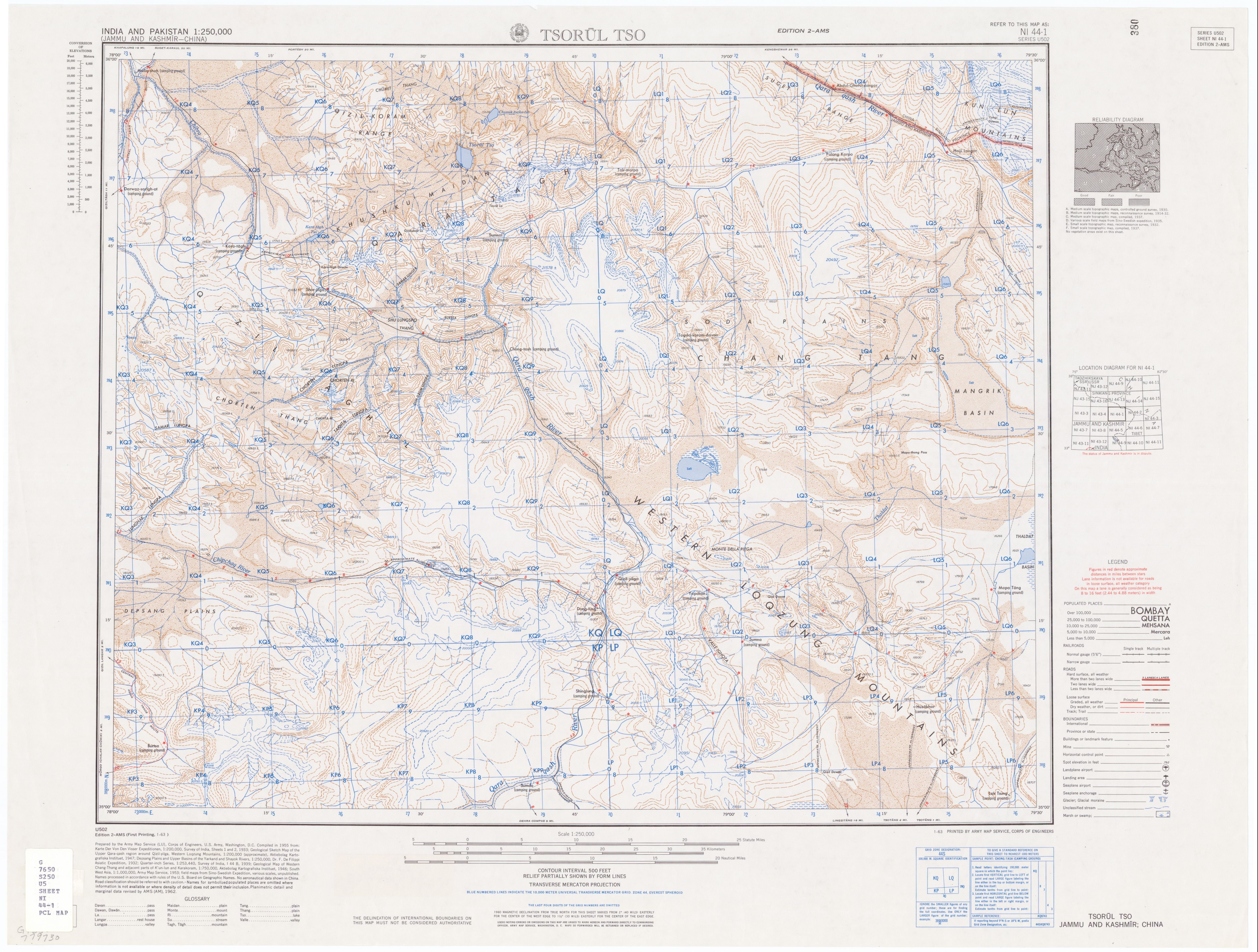 NI 44-1 Tsorul Tso. Tile of the Map India and Pakistan 1:250,000. Series U502, U.S. Army Map Service, 1955